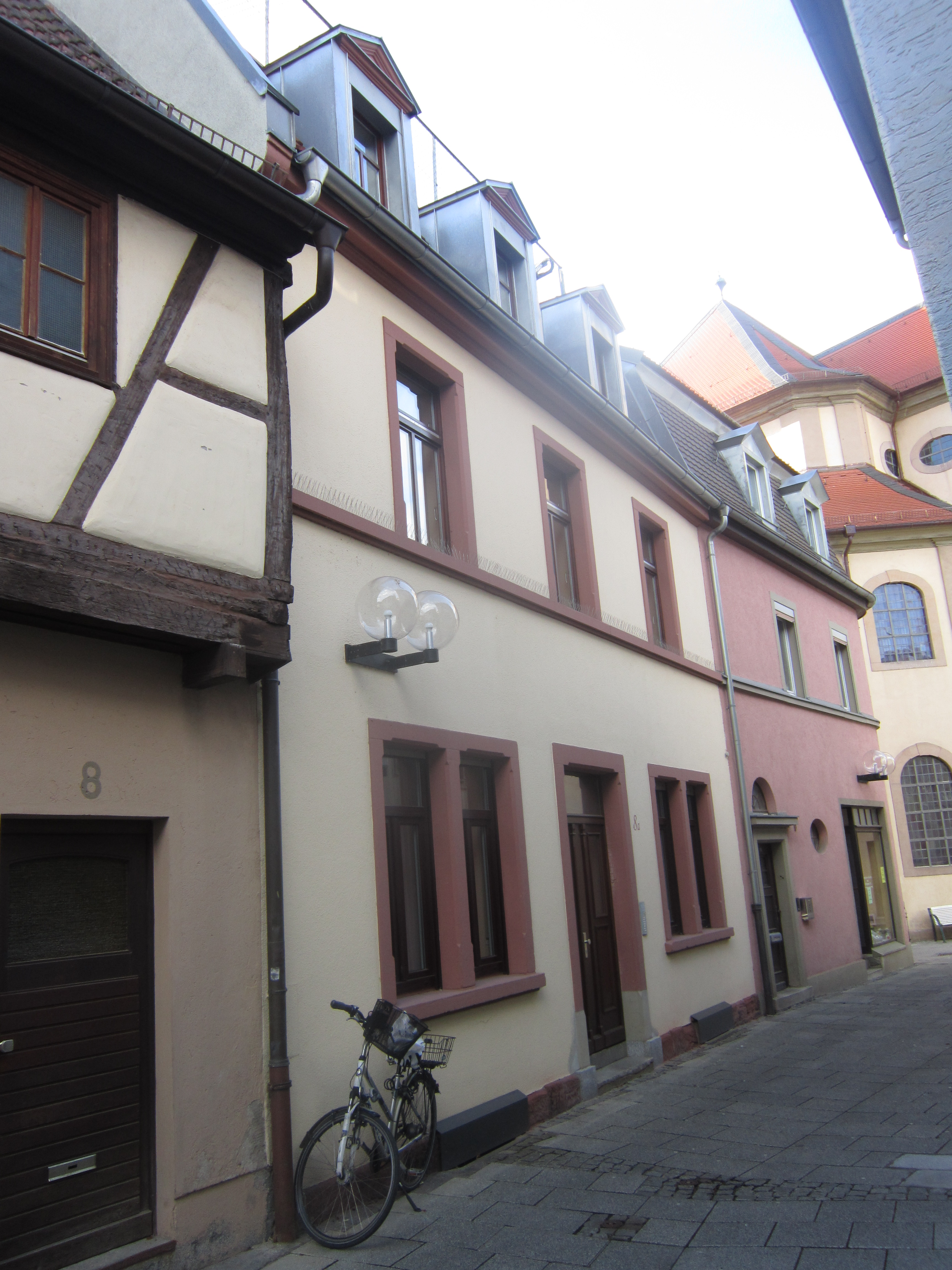 Building in the German spa town of Bad Kissingen in Lower Franconia (Bavaria) (Address: Schulgasse 8a).